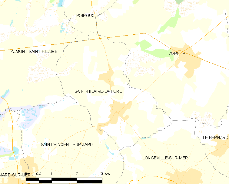 Map of French municipality Saint-Hilaire-la-Forêt